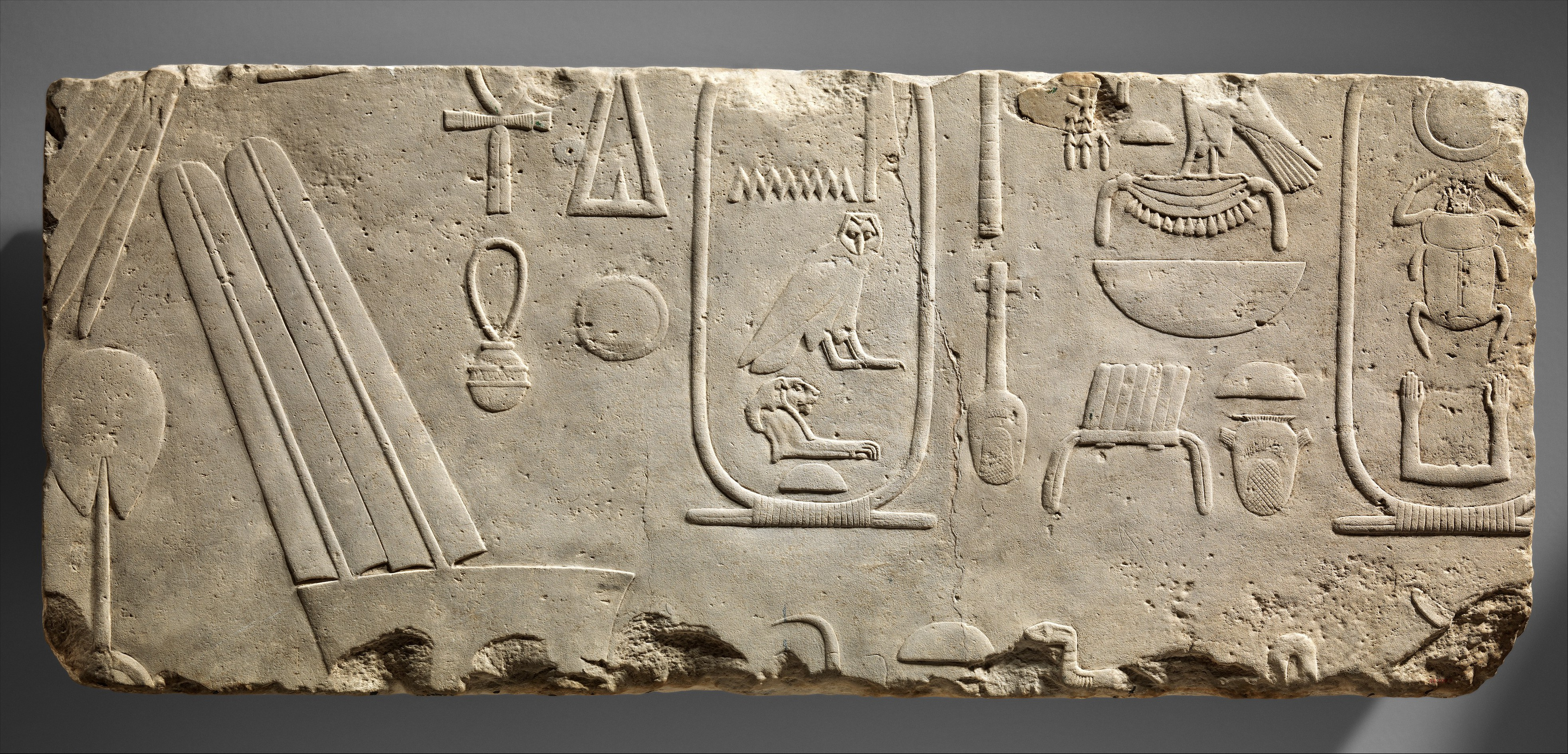 Relief, Amenemhat I and Senwosret I